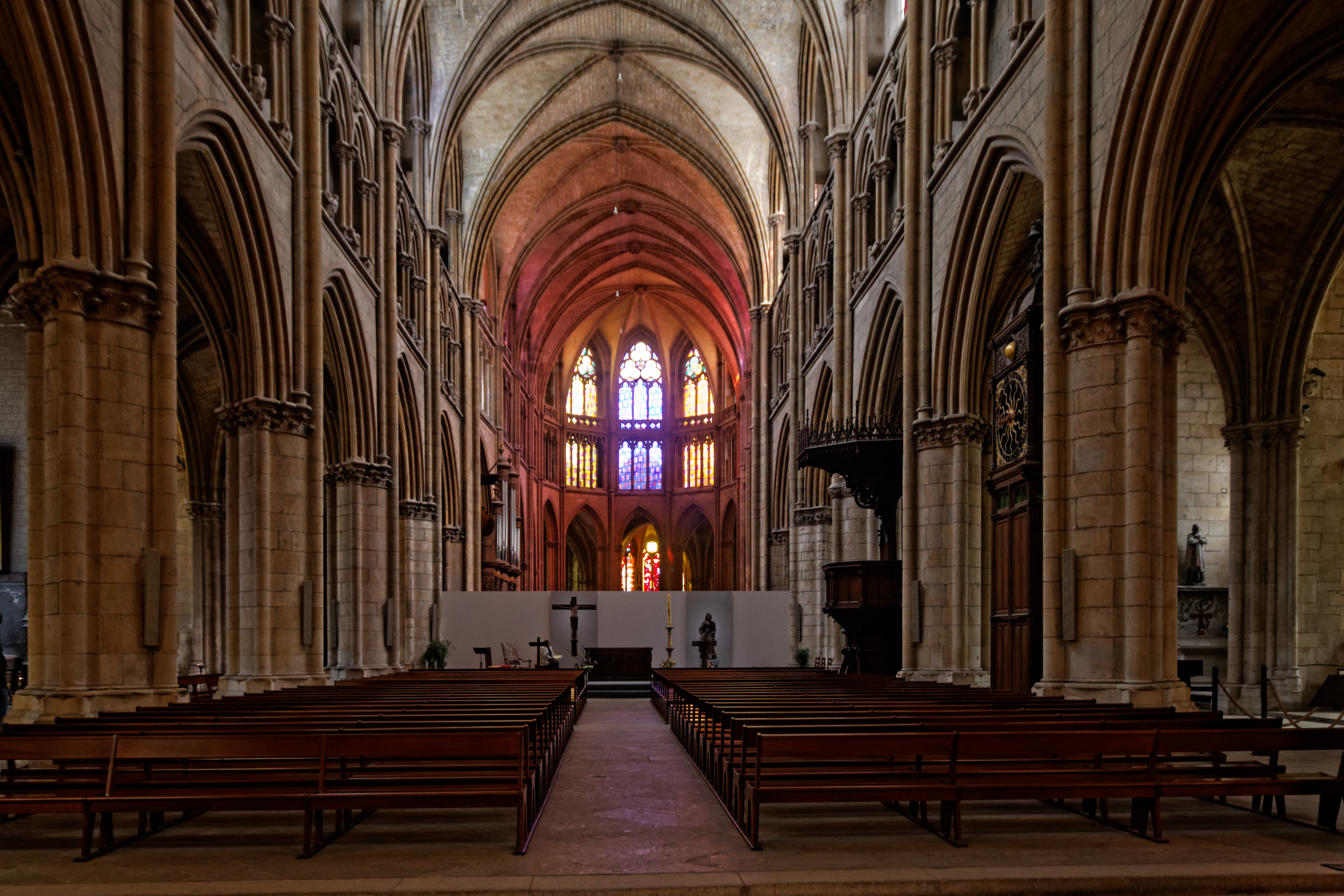 Gothic Cathedral nave. built after the fire of the Romanesque cathedral whose transept was raised-up to do the junction between the two buildings. Under constructions.